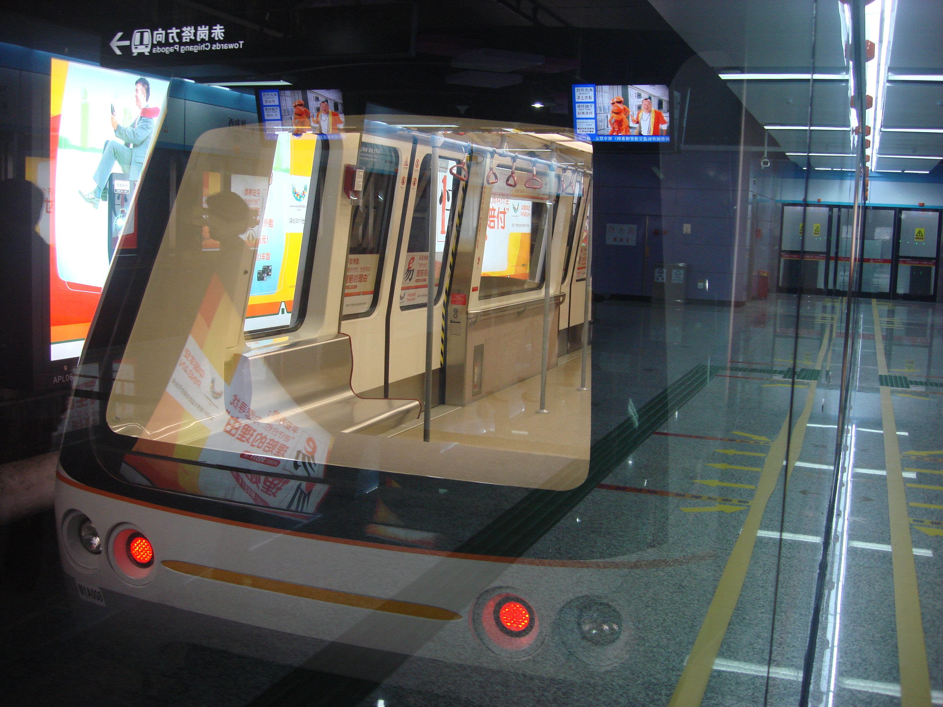 Train of APM Line.